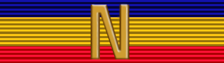 The ribbon of Presidential Unit Citation (Navy) with the special clasp "N". All the members of USS Nautilus (SSN-571) who made the voyage under the North Pole were authorized to wear this clasp